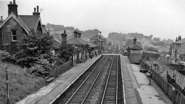 Brierfield Station. View southward, towards Burnley, Accrington, Blackburn and Preston; ex-L&Y (Lancashire & Yorkshire railway) Manchester/Preston - Blackburn - Accrington - Burnley - Colne line.